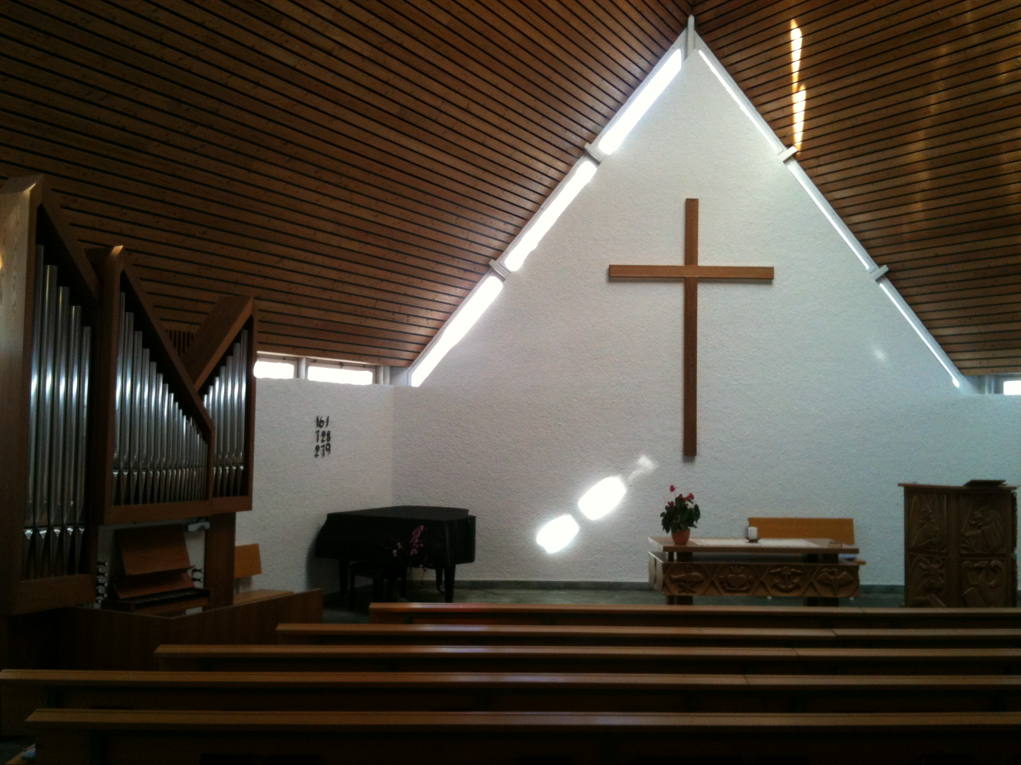 Reformed church of Churwalden